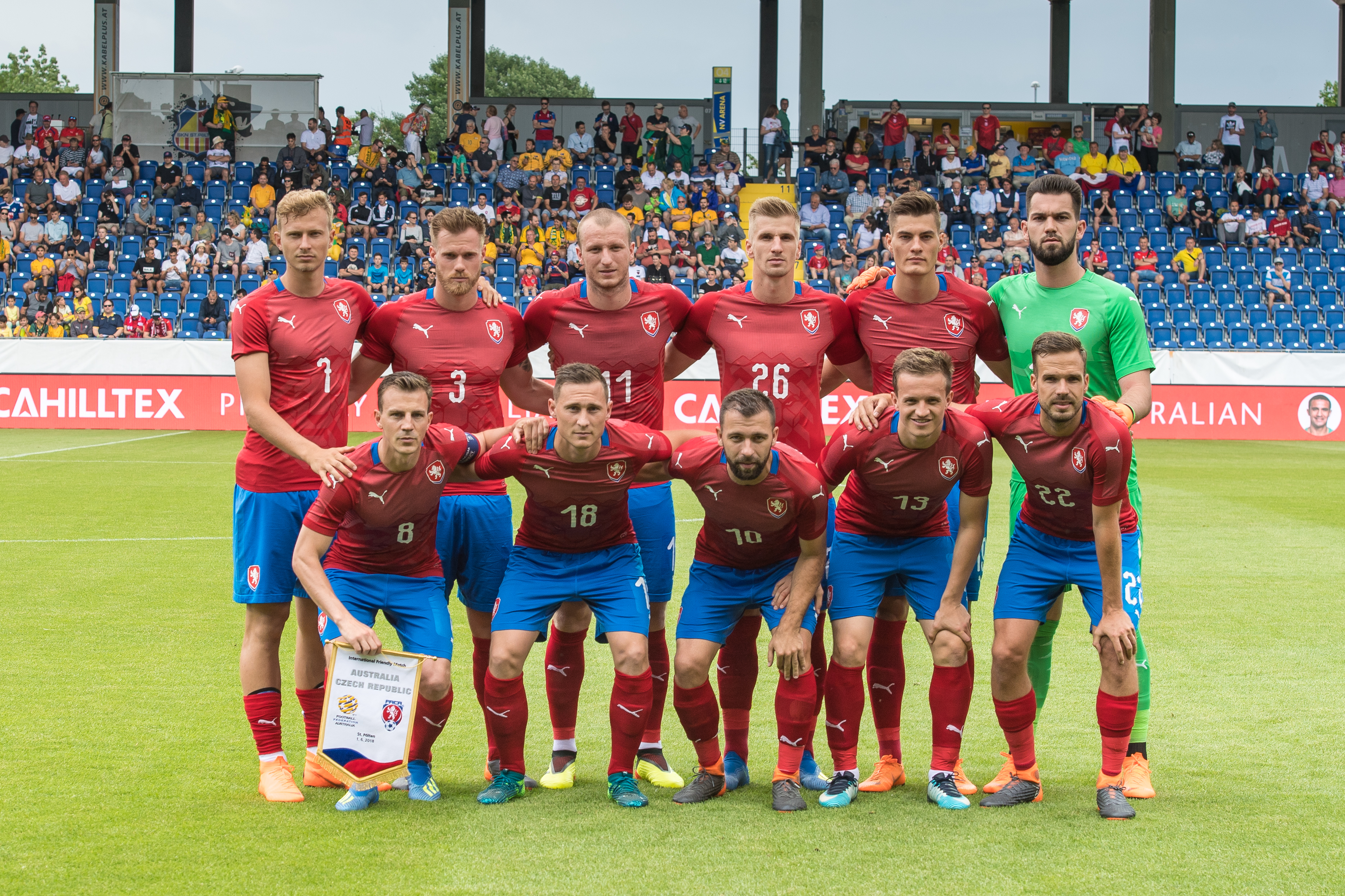 1/6/18St. Poelten, Austria, sports, football, International friendly - Australia vs Czech Republic. Image shows the team of Czech Republic.